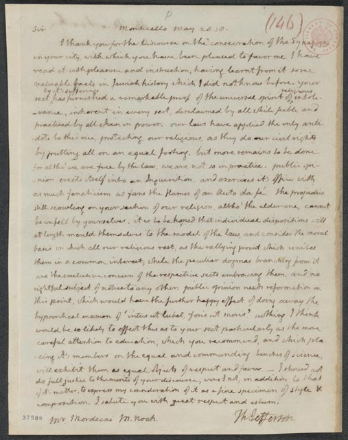 A letter to Mordecai Manuel Noah by Thomas Jefferson